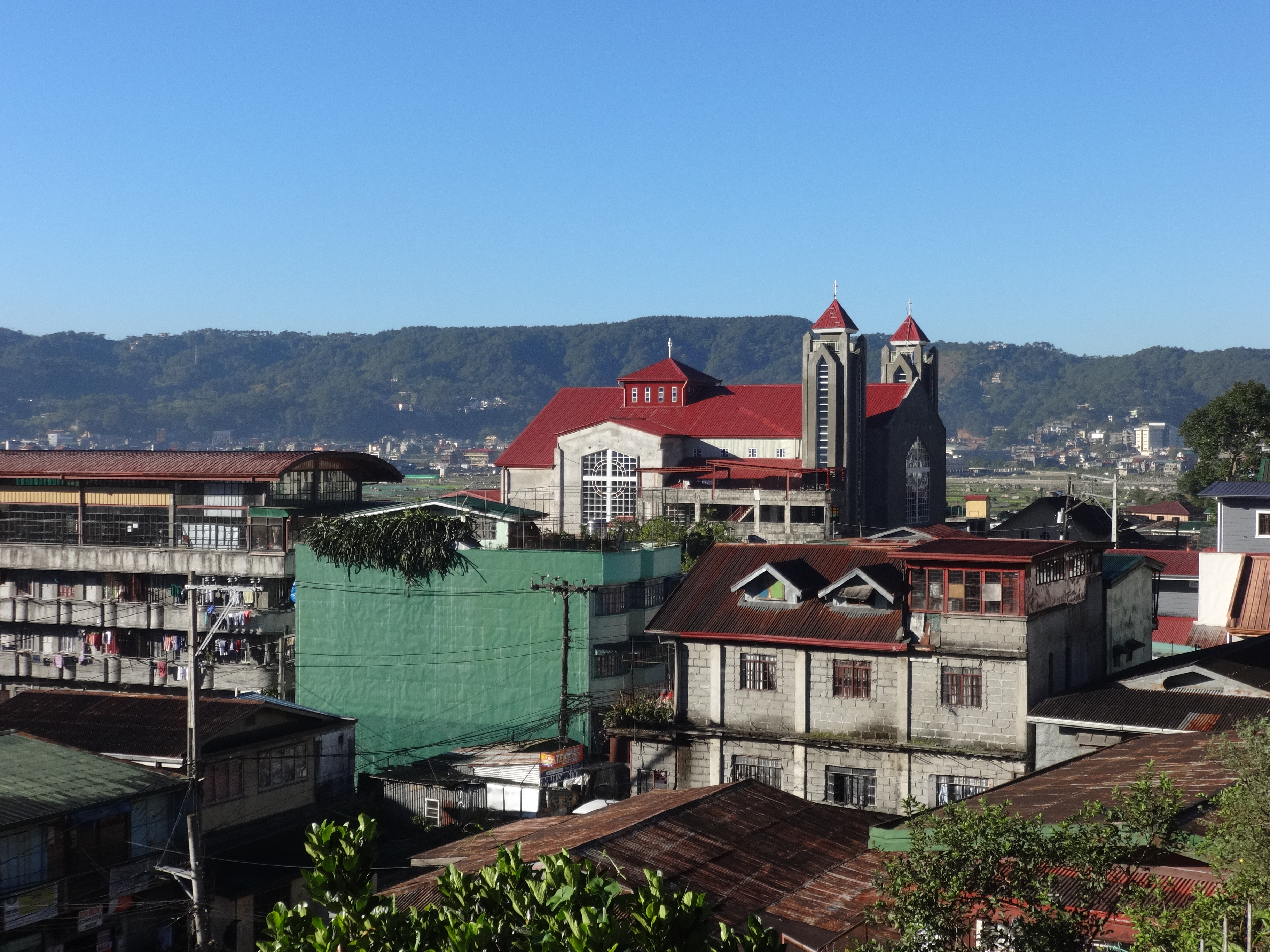 View of La Trinidad town proper from Benguet Provincial Capitol in La Trinidad, Benguet